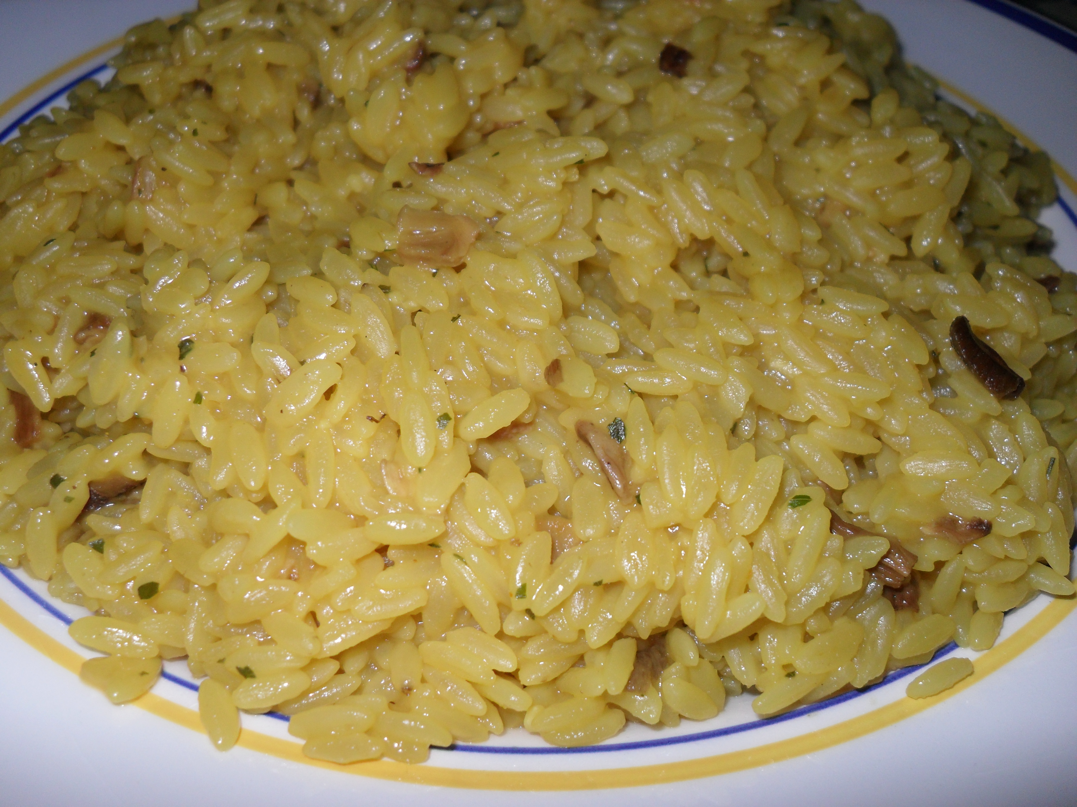 Italian rice dish cooked with porcini (Boletus edulis)